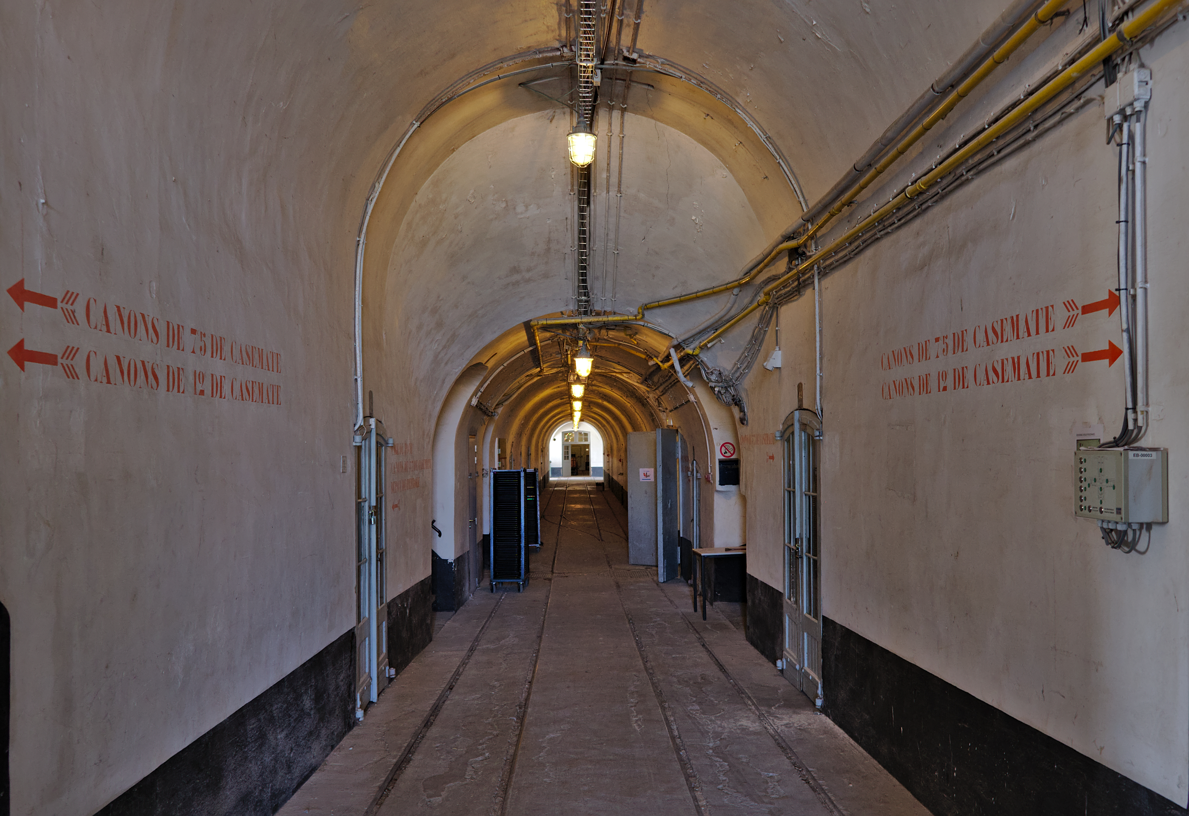 Main corridor of Fort Liezele (Puurs, Belgium) This photo of immovable heritage has been taken in the Flemish Region